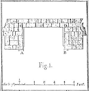 copy of very old print 1794